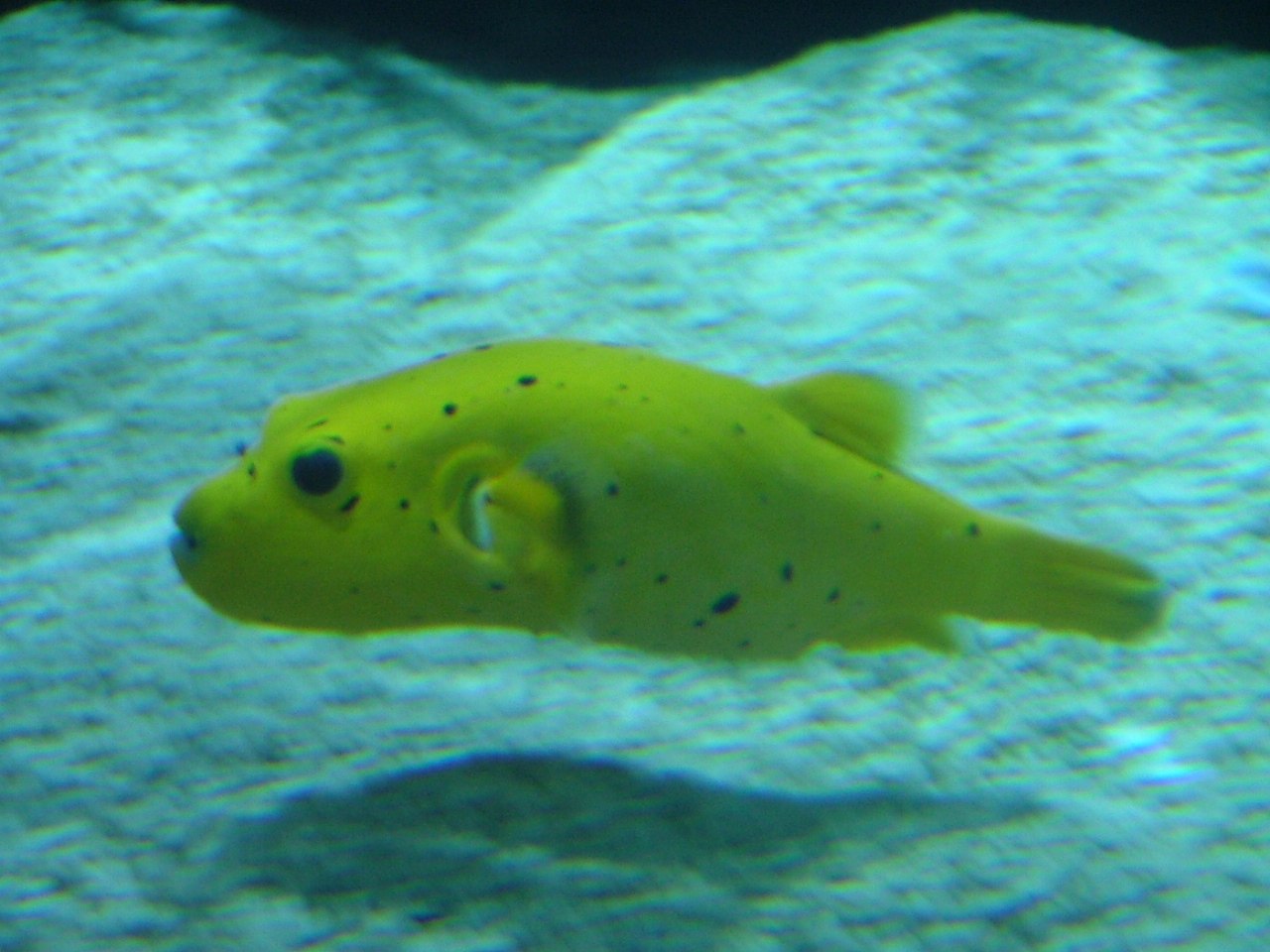 Puffer fish Arothron sp.